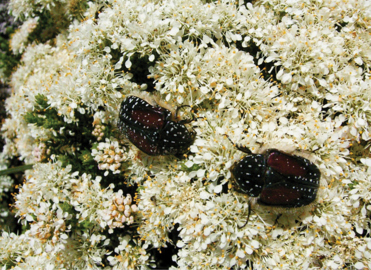 Trichostetha bicolor feeding on flowers of Agathosma capensis (Rutaceae) at Saldanha Bay, September 2004 (Photo: L Clennell).